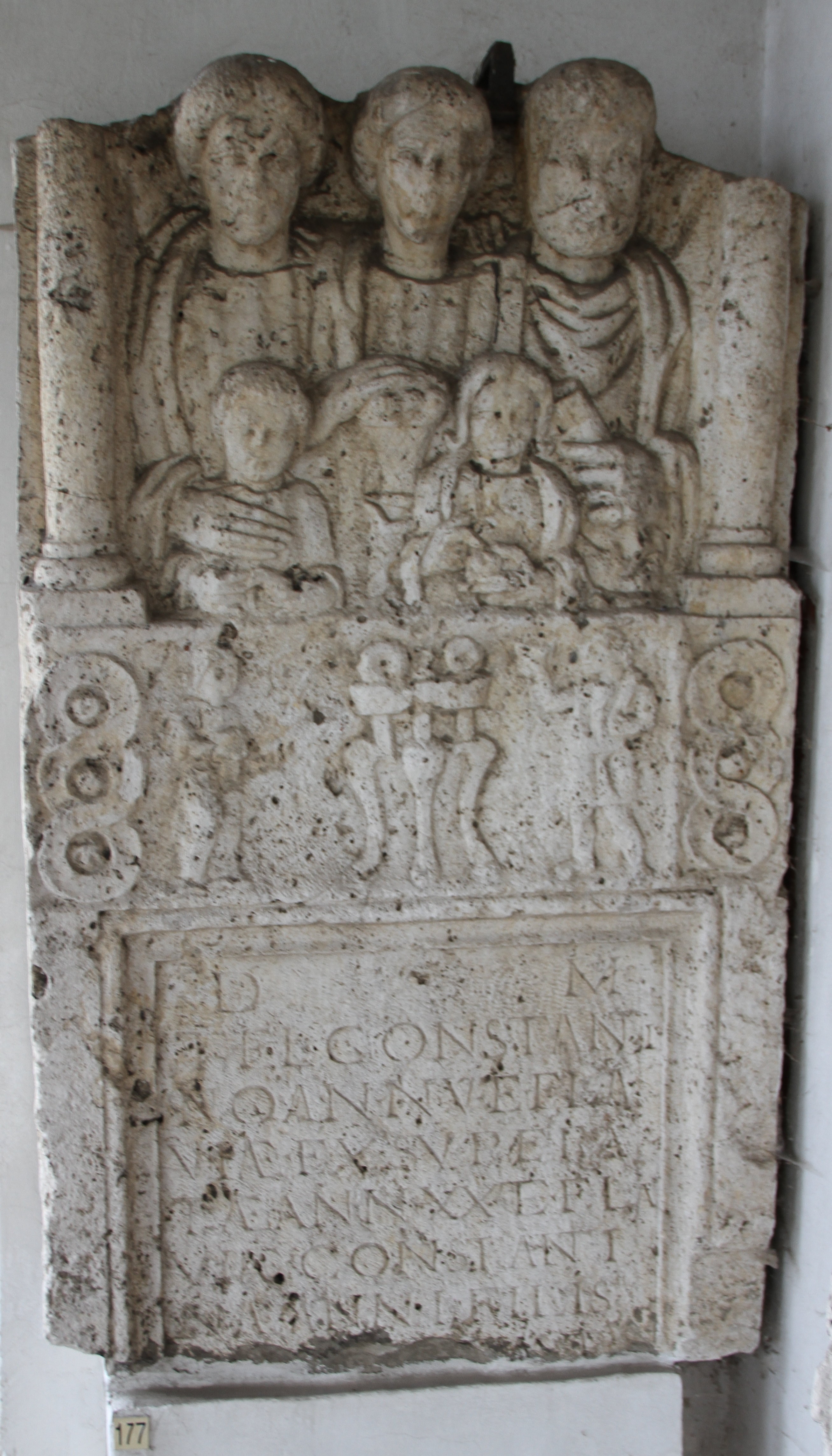 Ancient roman Tombstone, from Aquincum (Hungary), 1st-2nd Century AD.